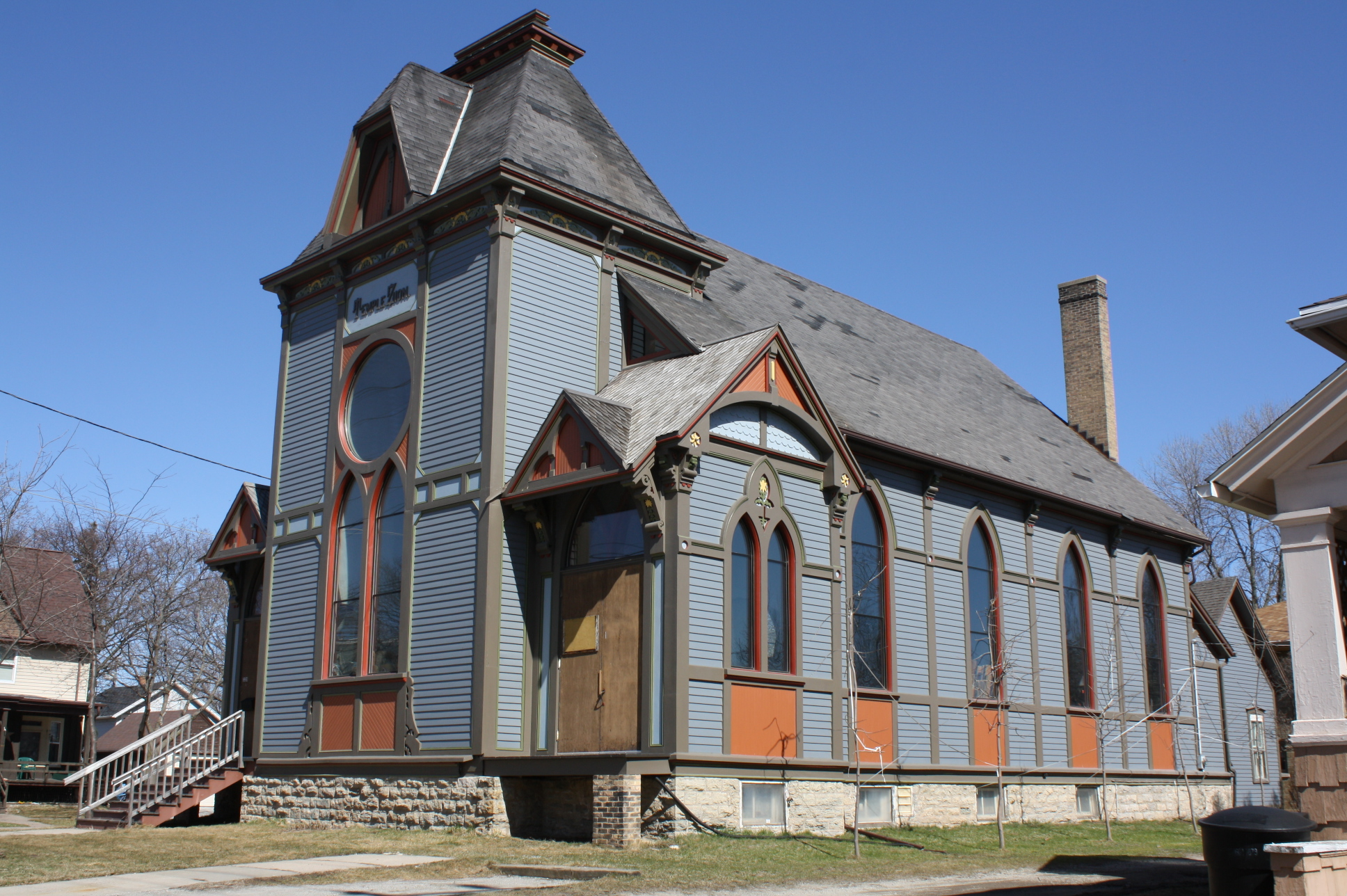 The Temple Zion and School in Appleton, Wisconsin, listed on the National Register of Historic Places.